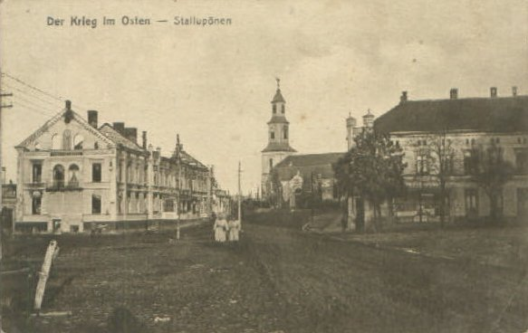 Nesterov (Stallupönen) in 1915Stallupönen